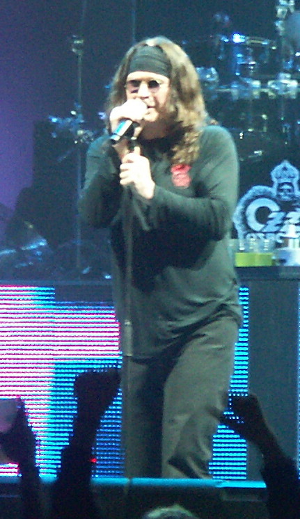 Ozzy Osbourne at the Fargodome on October 29 2007